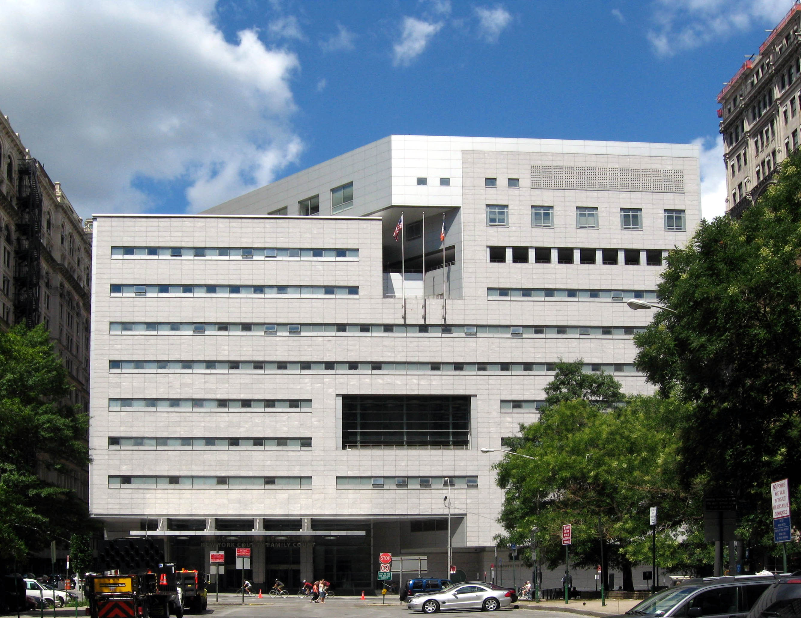 Looking west at New_York_City_Courts#Family_Court on a sunny late morning